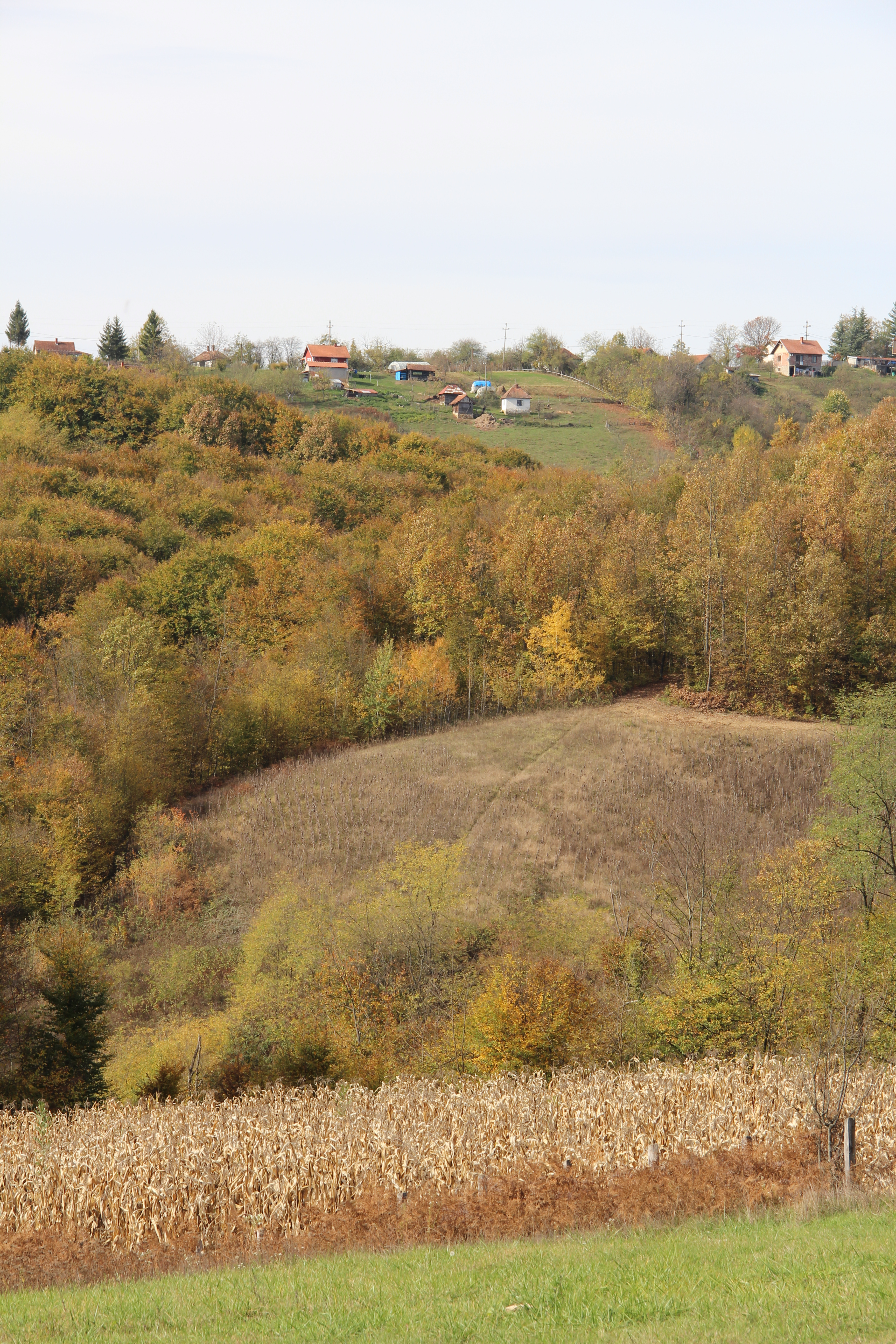 Plužac village - Municipality of Osečina - Western Serbia - panorama 11